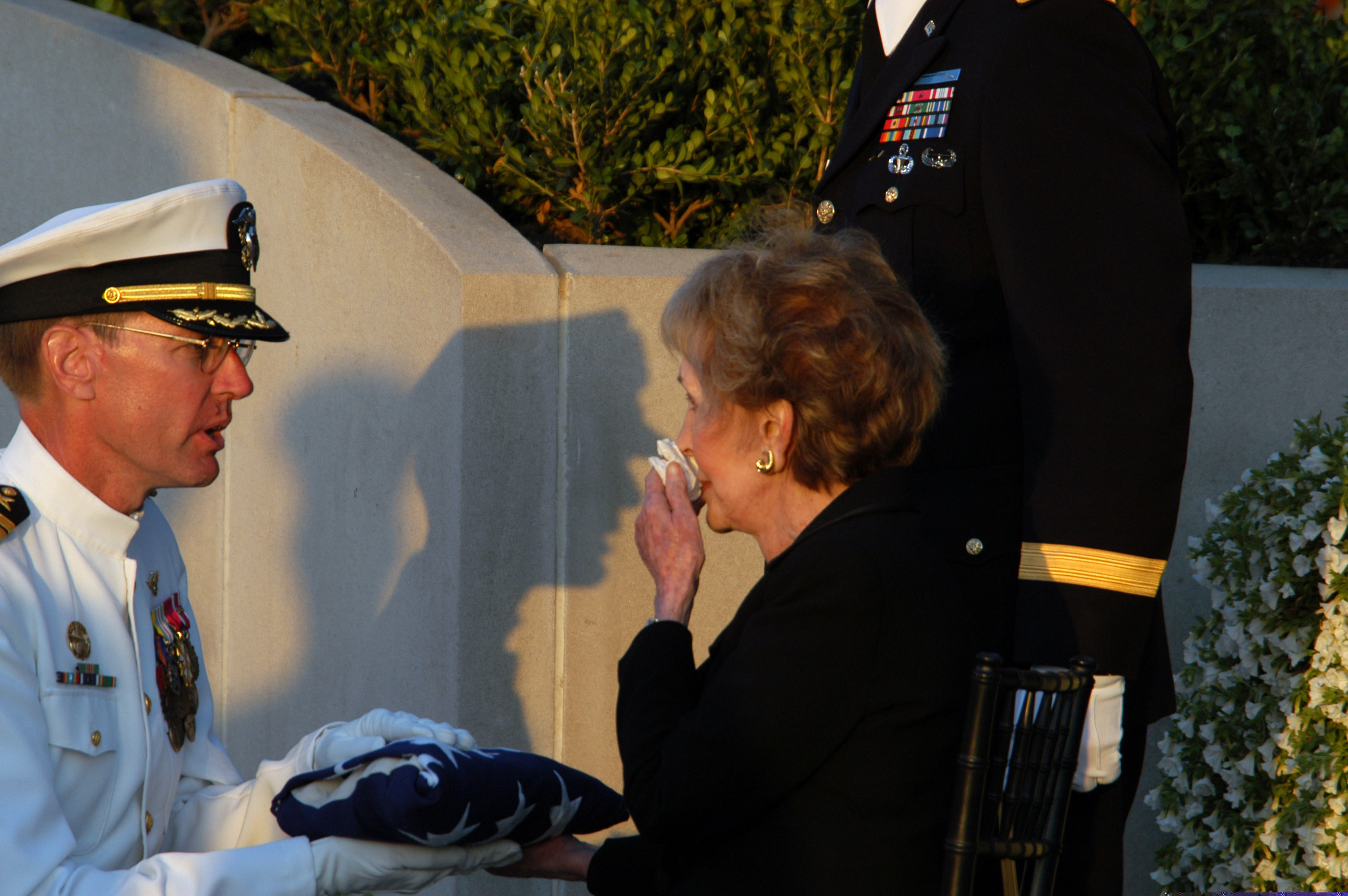 Nancy Reagan accepts the flag presented to her at President Reagan's gravesite.